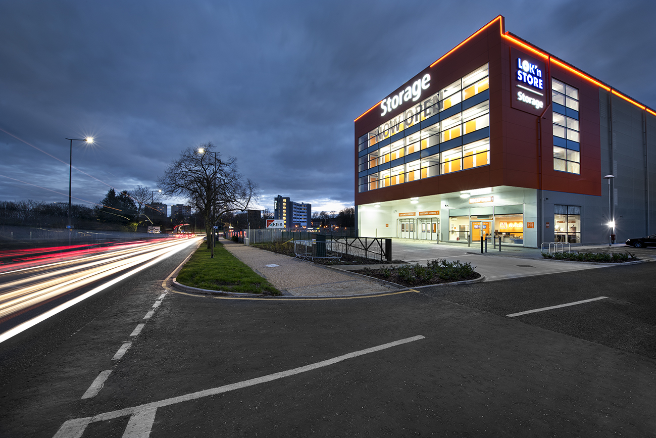 A UK Self Storage Centre